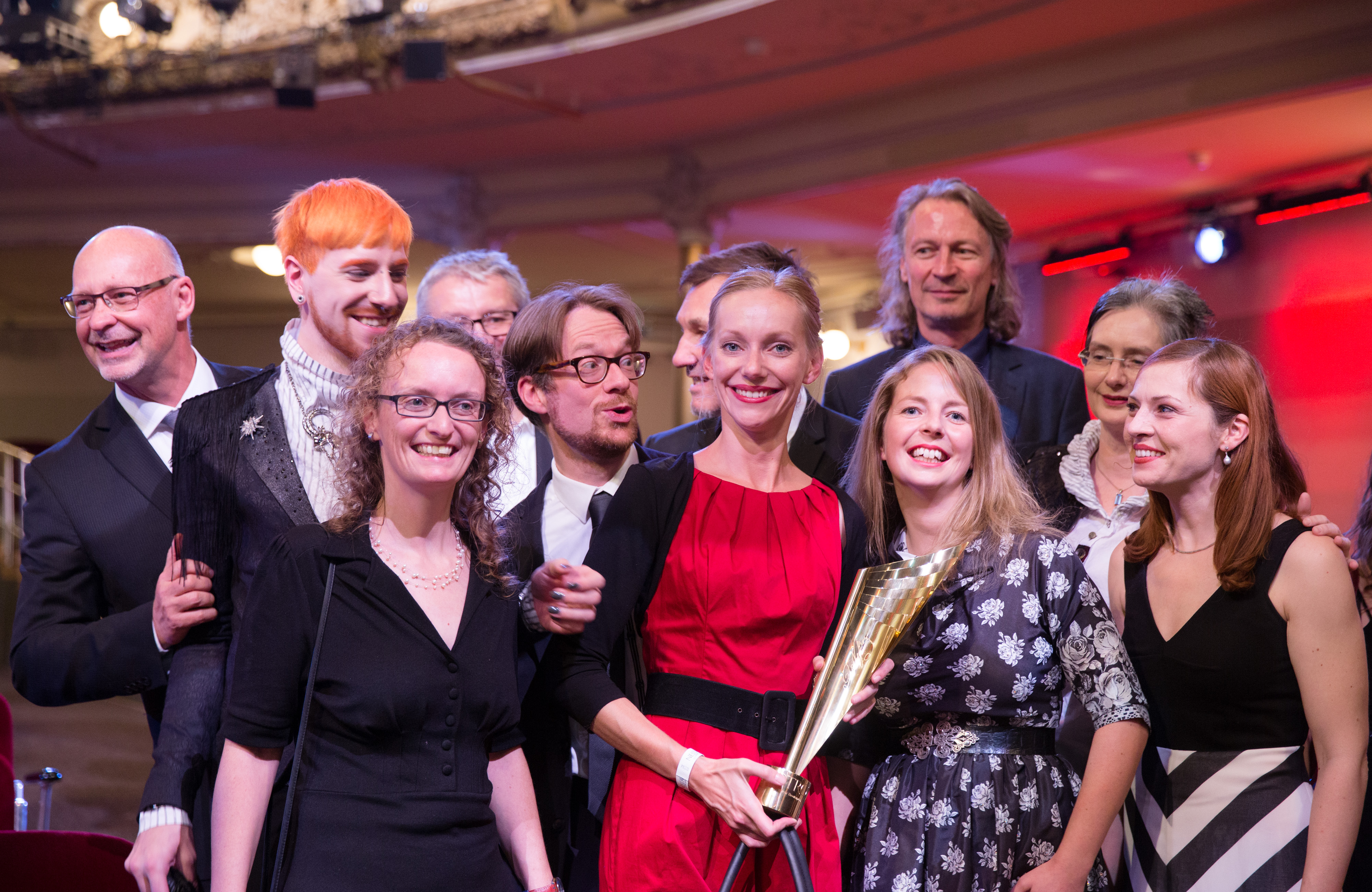 Team and ensemble of the dramatization of Anna Karenina at Tiroler Landestheater Innsbruck at the Nestroy Theatre Awards 2015 (Ronacher, Vienna, Austria).